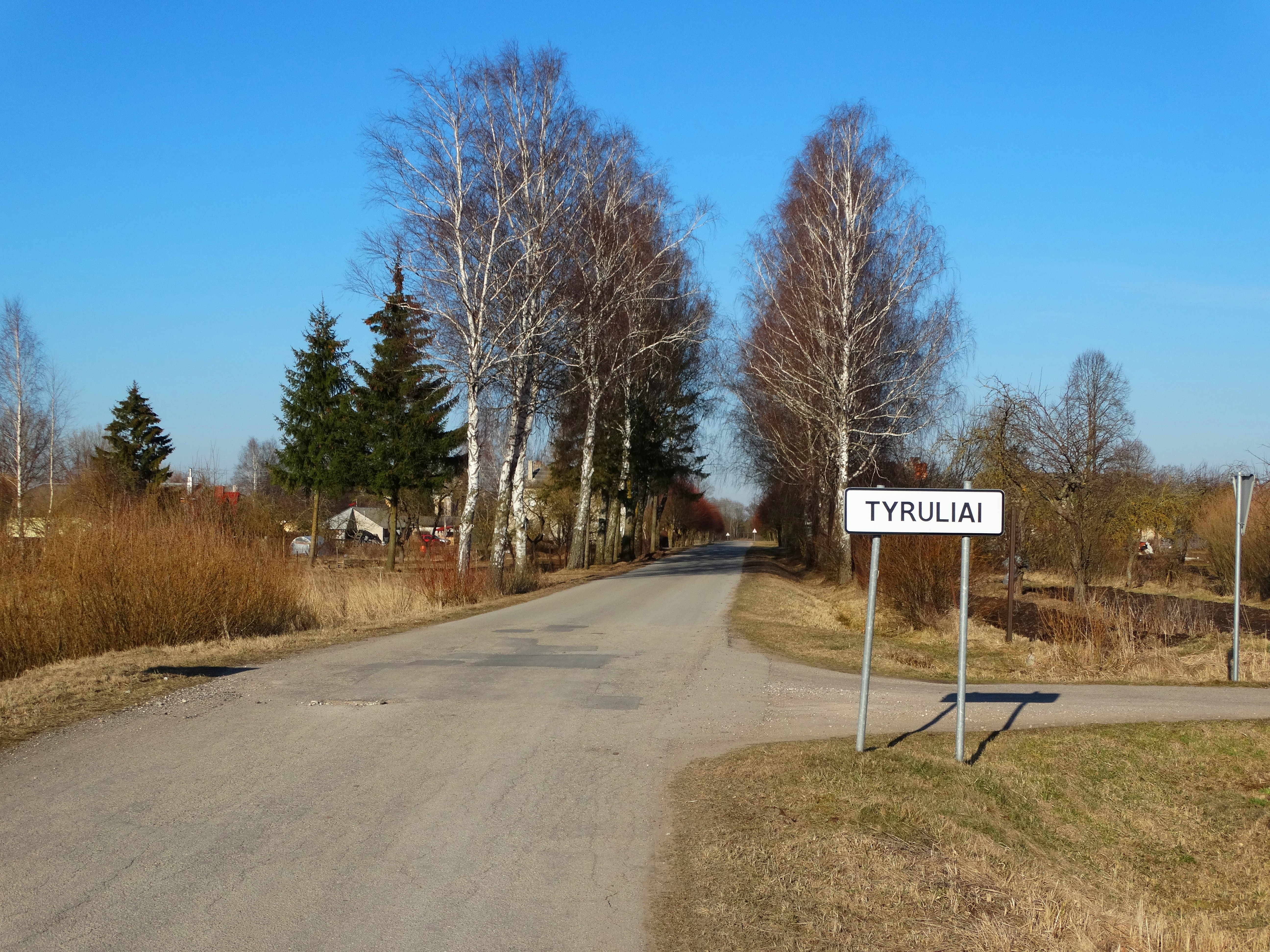 Tyruliai, Radviliškis District, Lithuania